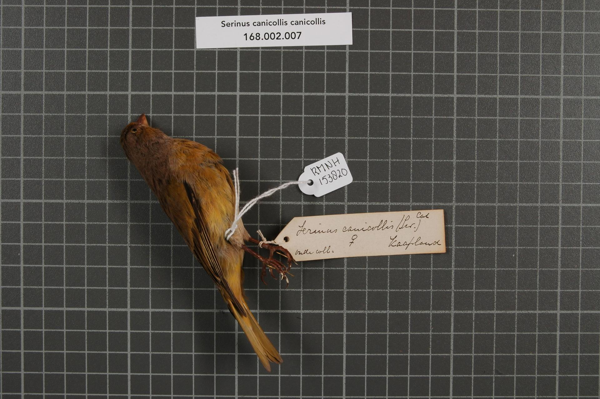 Serinus canicollis canicollis (Swainson, 1838)